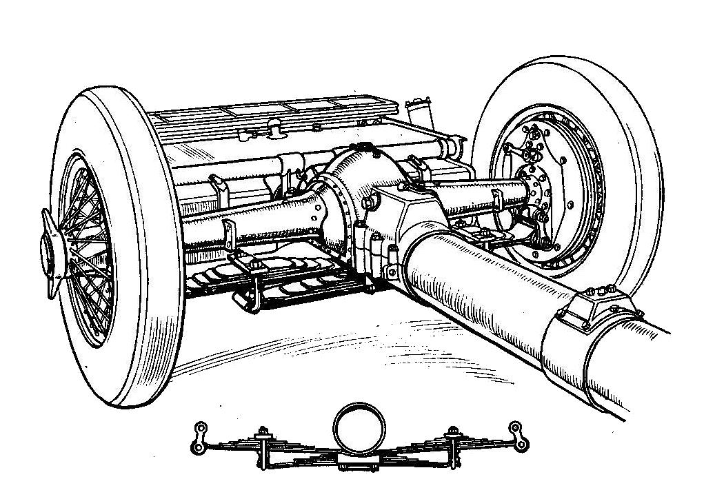 Austro-Daimler rear swing axle (Autocar Handbook, 13th ed, 1935).jpg